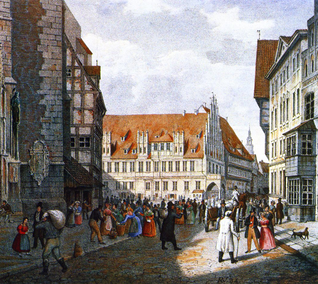 The Market 1834 in Hanover. Lithograph by Rudolf Wiegmann.